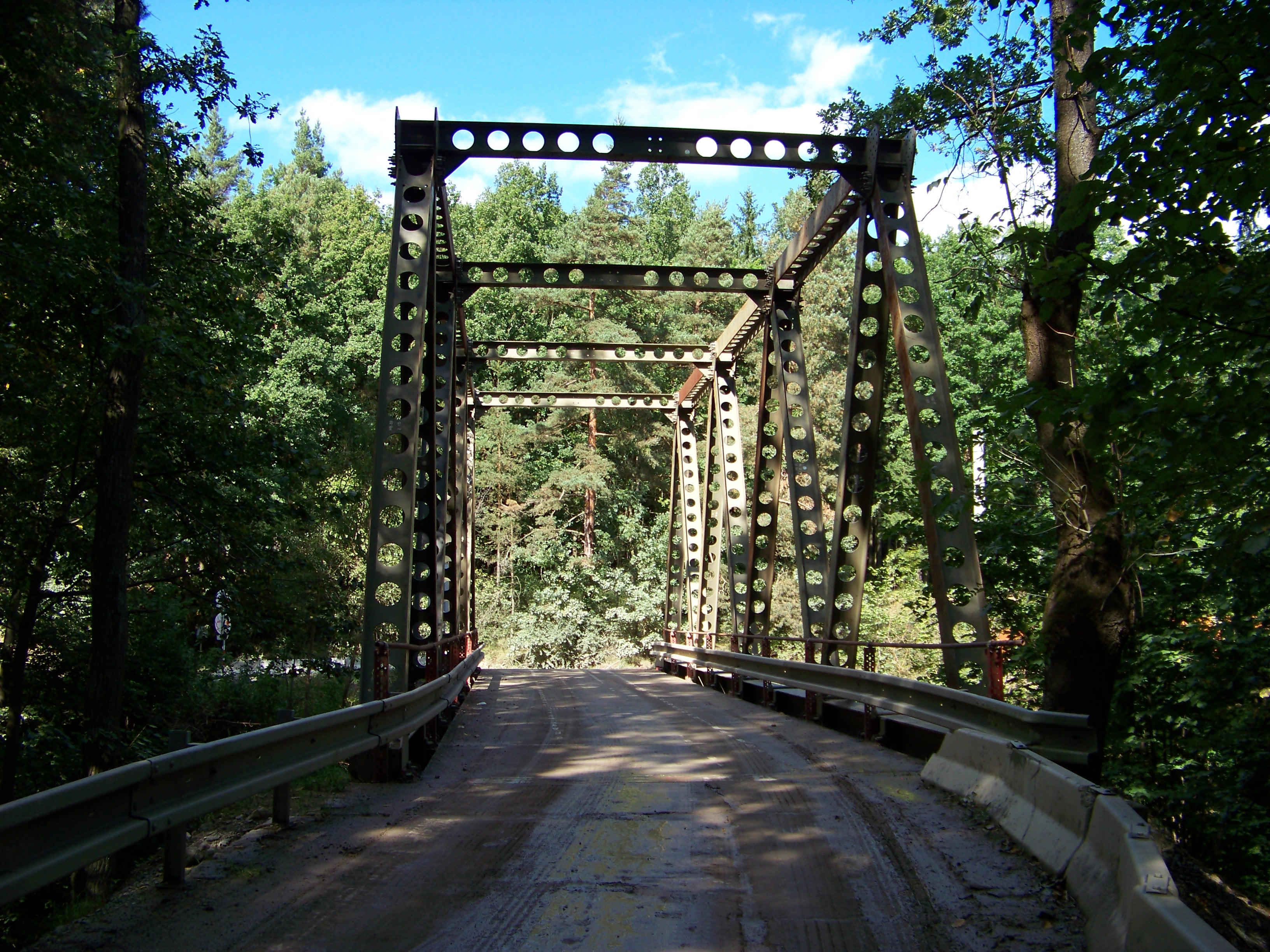 Sezimovo Ústí and Turovec, Tábor District, South Bohemian Region, the Czech Republic. A bridge over Kozský potok near Kozský.